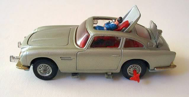 1964 Aston Martin DB5, produced by Corgi, as a tie-in to the James Bond film Goldfinger (1964). This is the second Corgi version of the car, released in 1968. It featured silver paintwork (rather than the gold of the original model) and additional revolving number plates and rear tyre slashers (not included on the original.)